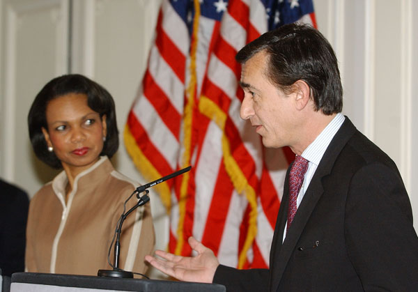 Condoleezza Rice and Philippe Douste-Blazy on June 23, 2005 in London.